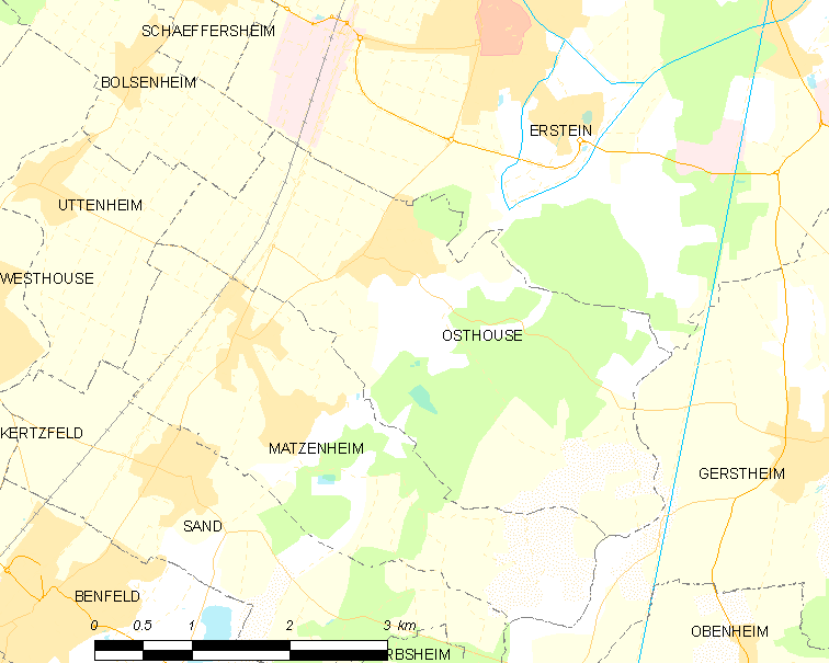 Map of French municipality